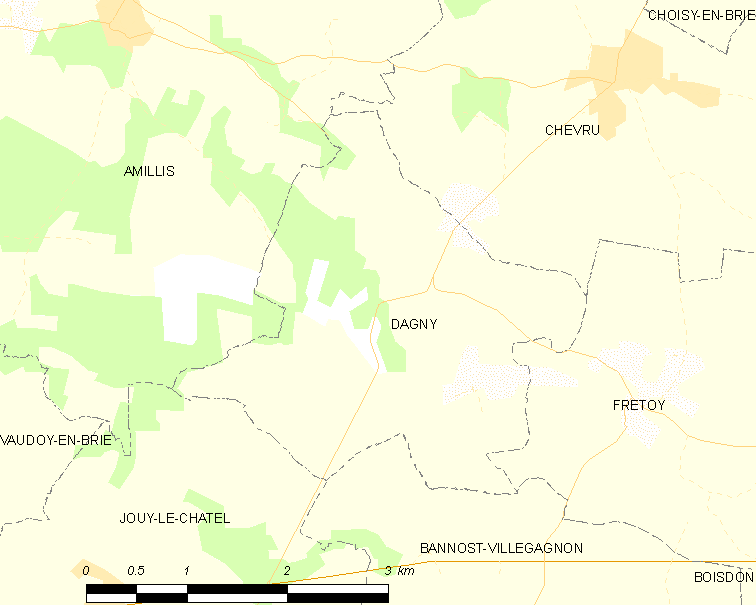 Map of French municipality Dagny